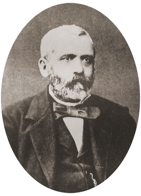 Bulgarian politician Dragan Tsankov